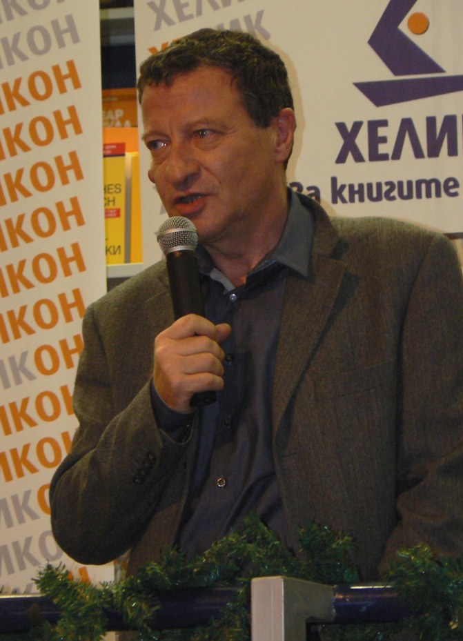 Bulgarian publisher, film critic, journalist and screenwriter Raymond Wagenstein